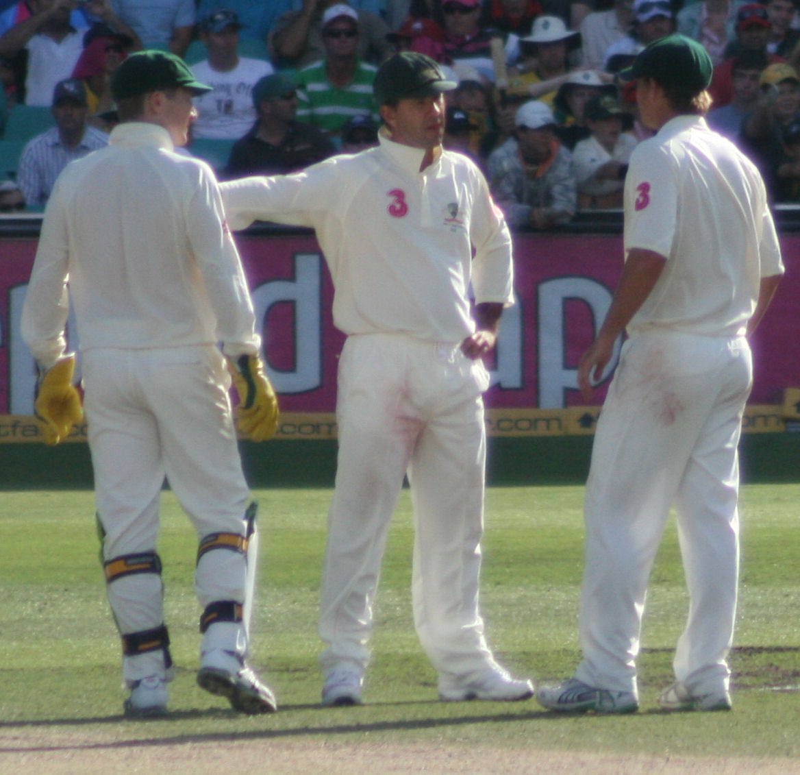 A cricket shot from Privatemusings, taken at the third day of the SCG Test between Australia and South Africa.